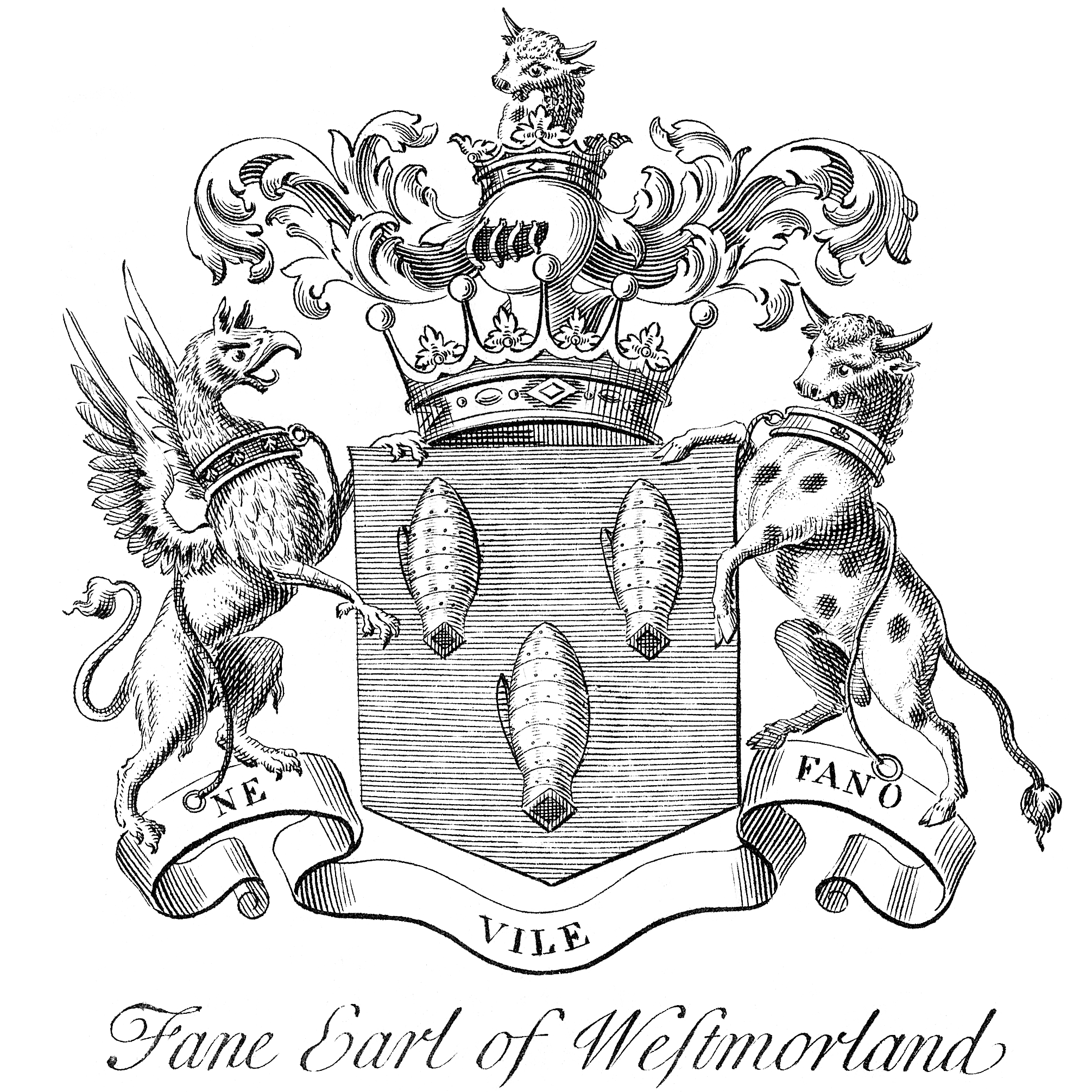 Coat of arms of the Fane family, Earls of Westmorland Azure, three right-hand gauntlets, with their backs forward, or.